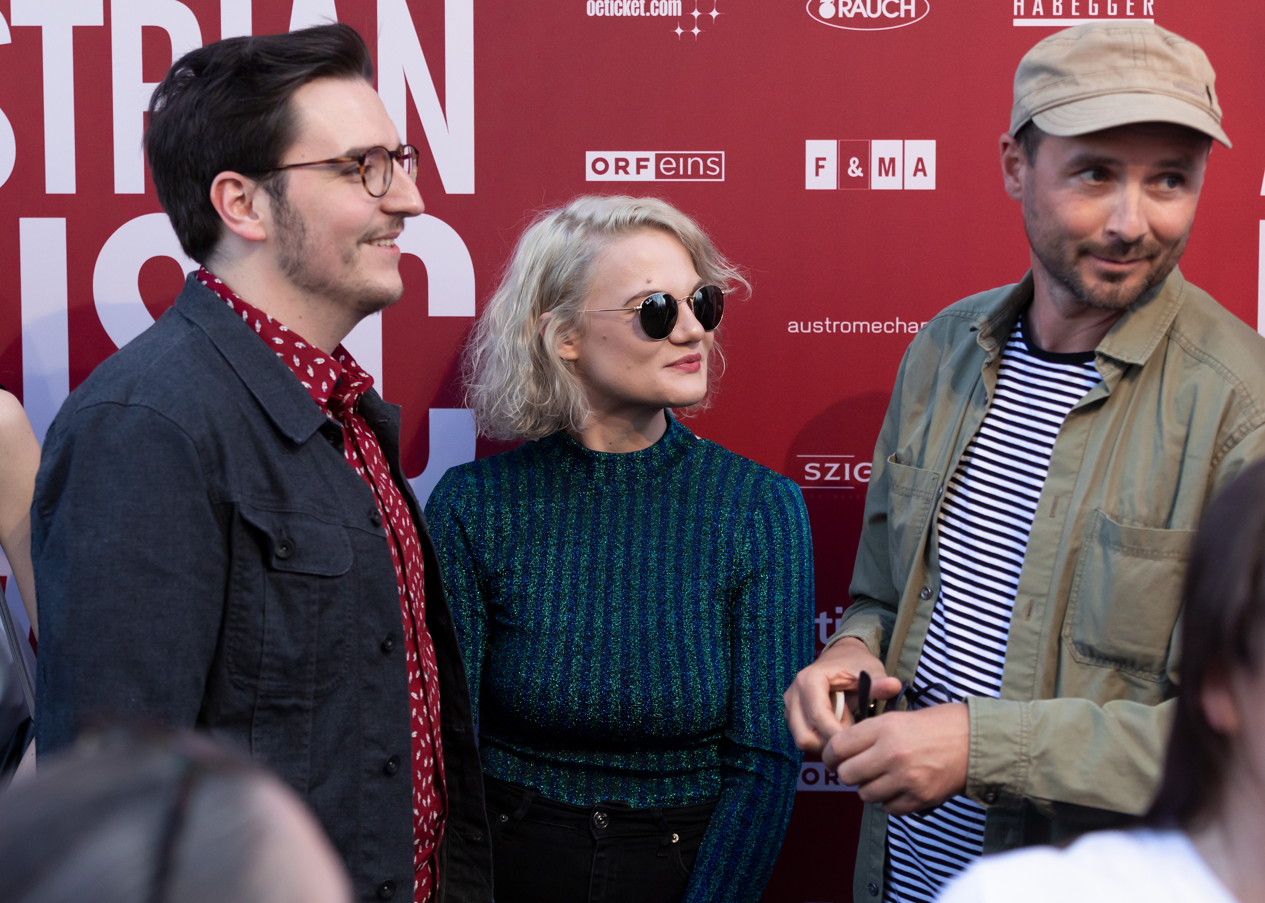 AVEC at the Amadeus Austrian Music Award 2019 at Volkstheater in Vienna.